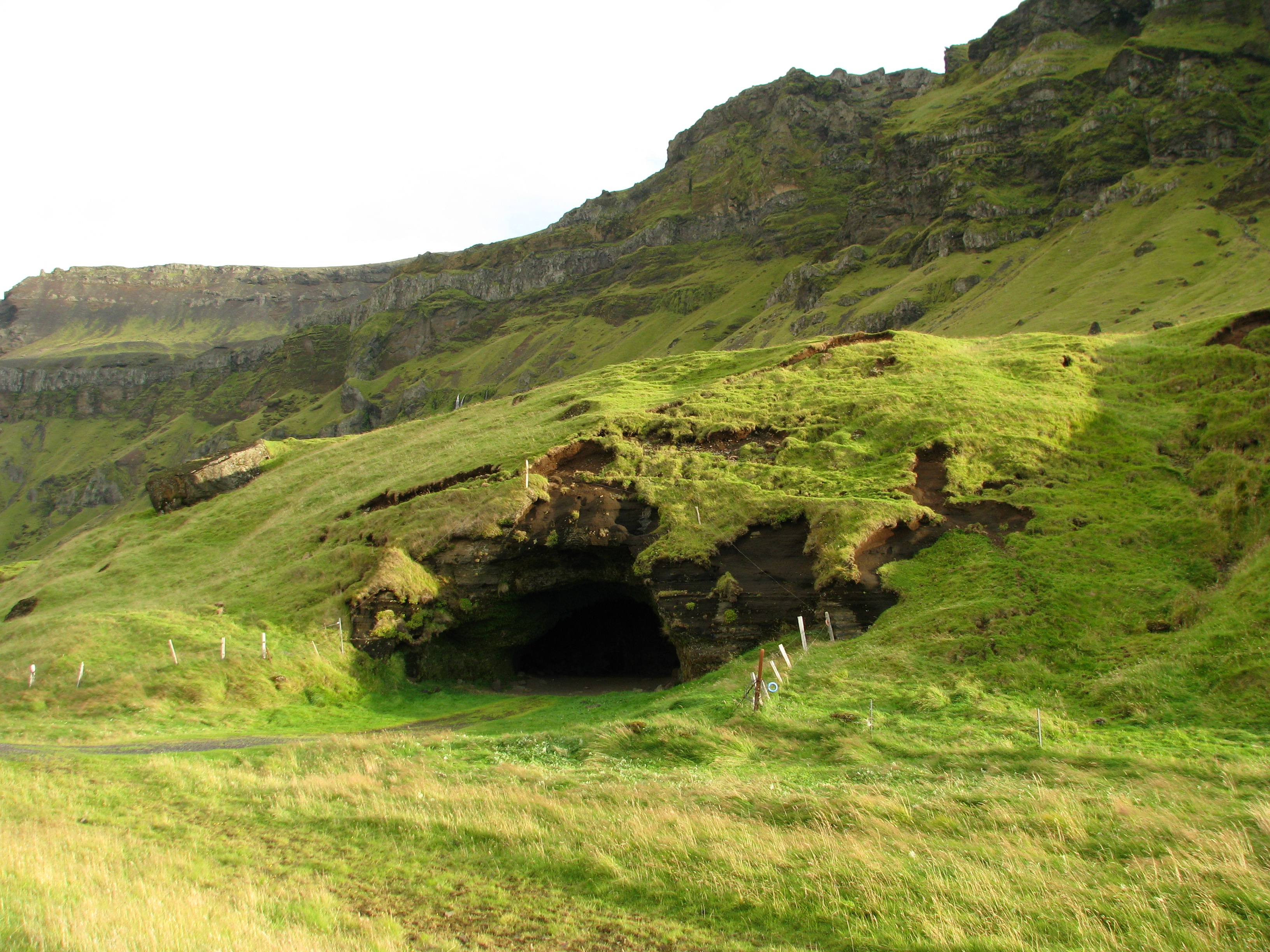 Steinahellir, a man made cave in South-Iceland